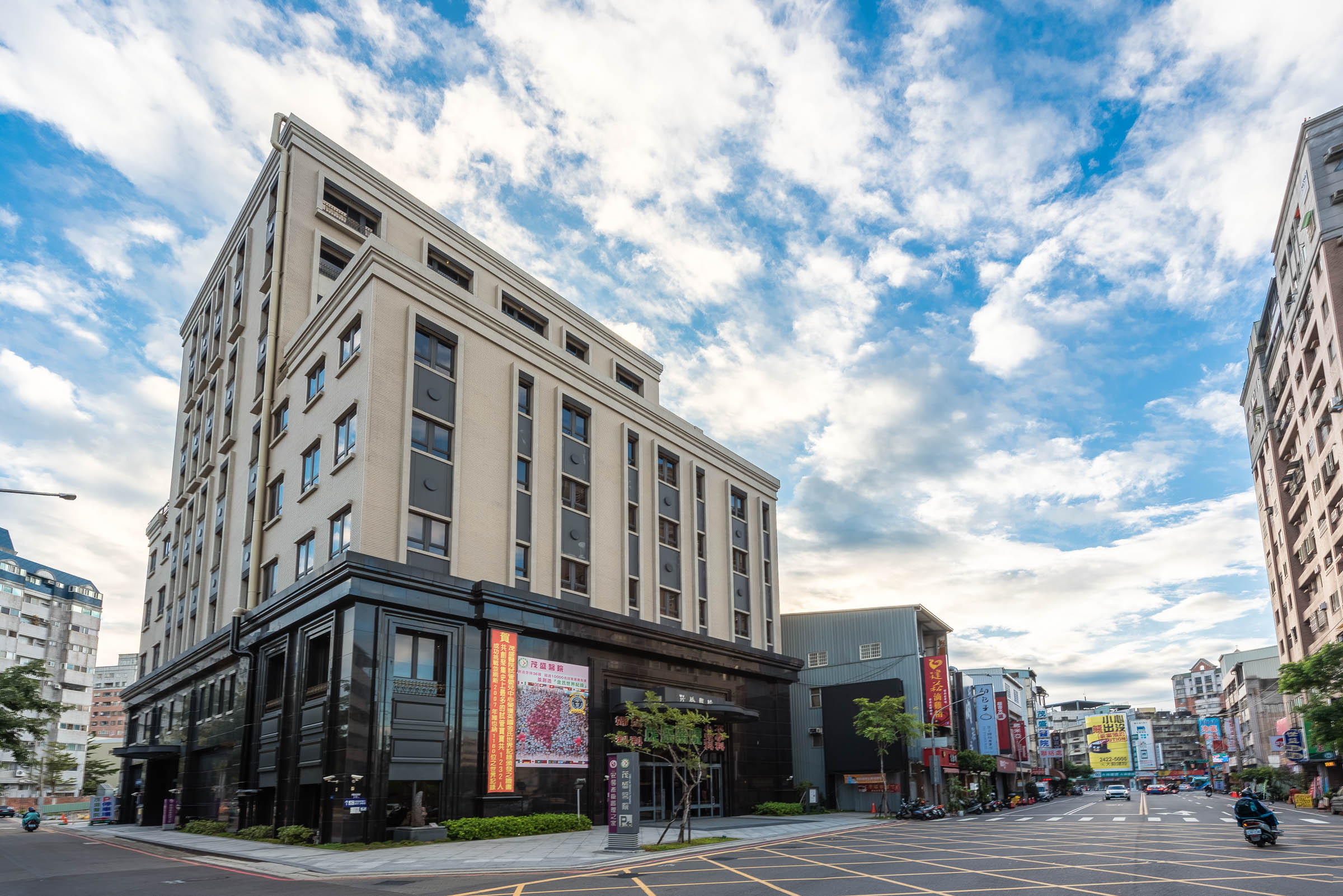 Lee Women's Hospital